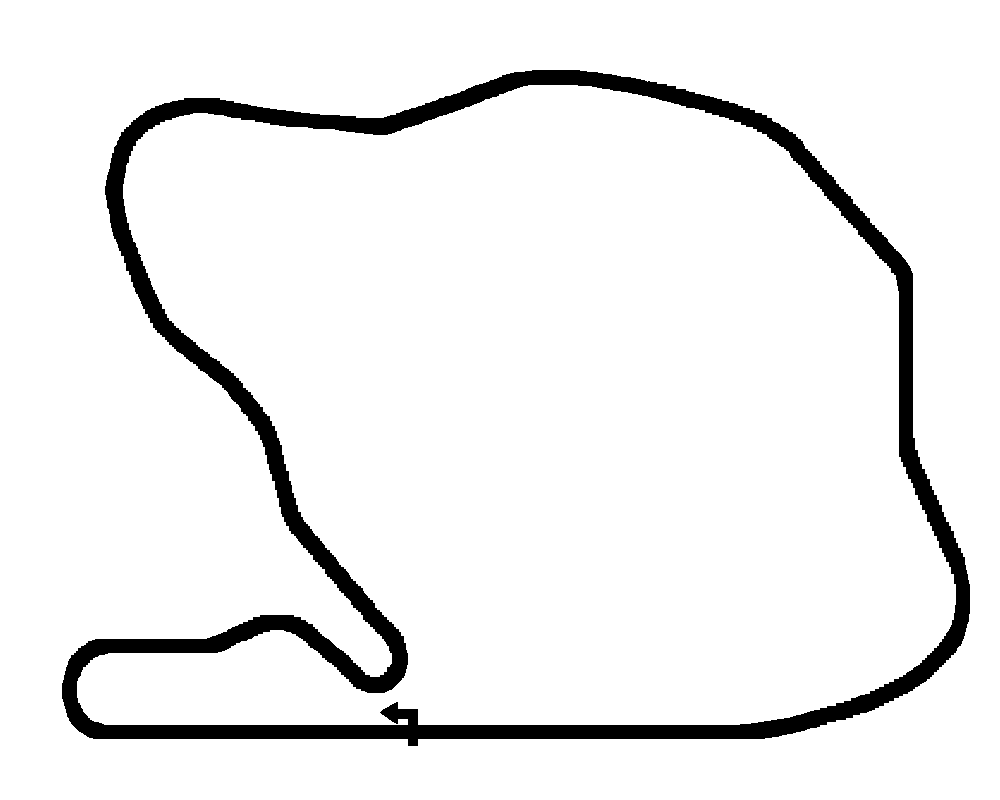 Zandvoort circuit - track layout from 1948 to 1972 - without turn names